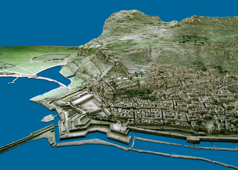 Defensive complex shown at the lower left is the Montague Bastion, behind this is Casemates Square and Landport fortifications. The Moorish Castle complex extends to the high ground with the Tower of Homage at the high point. Views from a model of Gibraltar in Gibraltar Museum. The model is 8 meter's long at a scale of 1/600 or 1inch = 50ft which represents the almost 3 mile length of Gibraltar It was completed in 1865 from a survey by Lient. Charles Waren R.E. under the direction of Major General Frome R.E. it was coloured after nature by Captain B.A. Branfill of 86 Regiment 1868. These pictures are from and are generously given by the site and its auithor Jim Crone